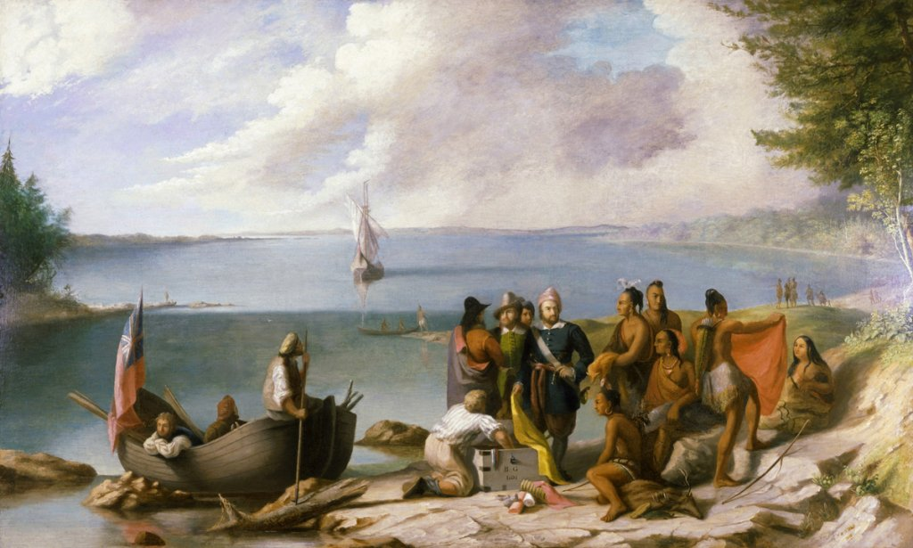 Gosnold at the Smoking Rocks William Allen Wall 1842 oil on canvas New Bedford Whaling Museum